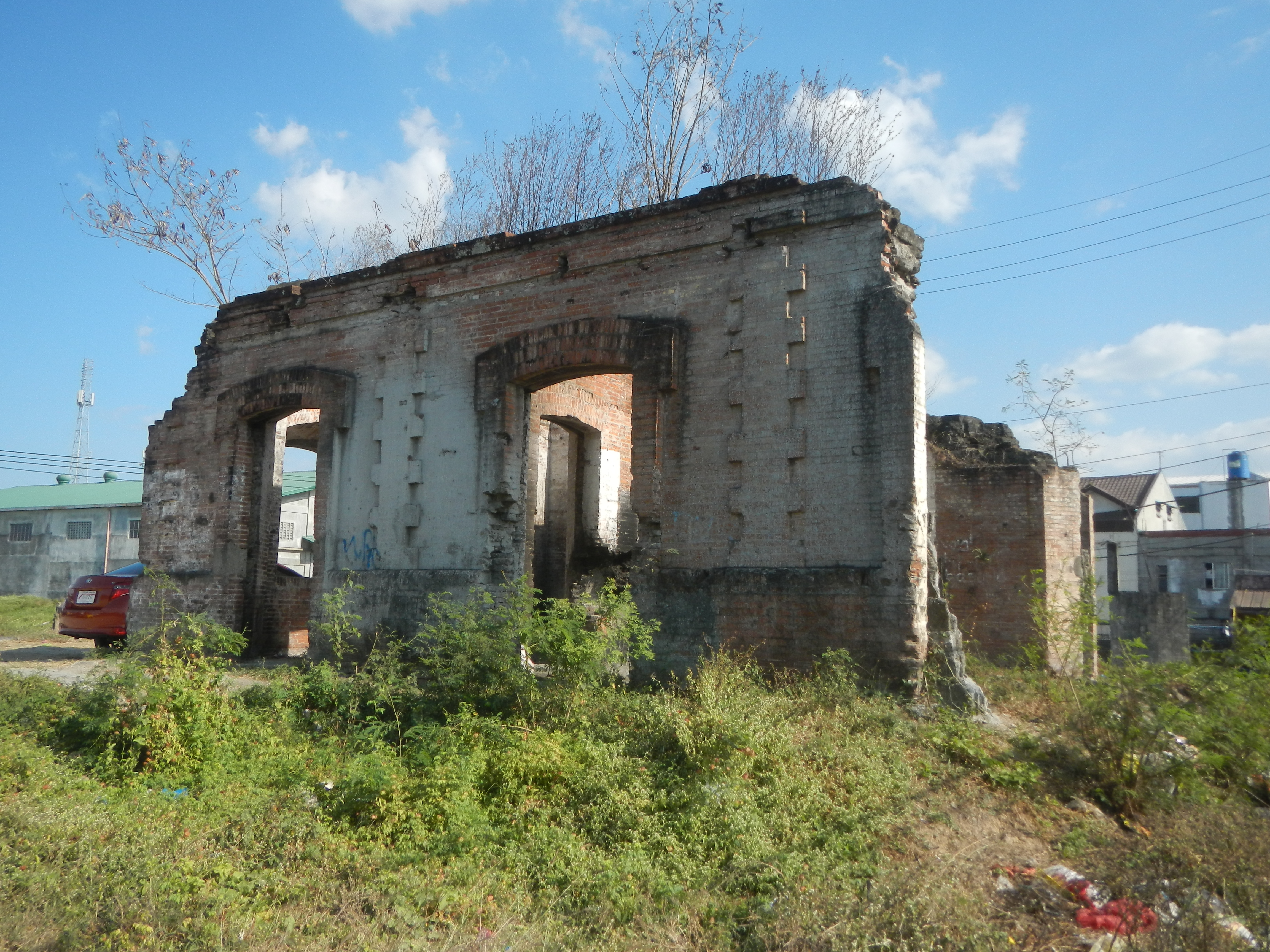 Tuktukan, Guiguinto, Bulacan Farm-to-Market Road Tabe, Guiguinto, Bulacan Farm-to-Market Road List of Philippine National Railways stations Philippine National Railways Old PNR Railway Station (Tuktukan & Tabe, Guiguinto, Bulacan) Guiguinto railway station is one of the defunct stations a former railway station that is situated on the Northrail line PNR Guiguinto Station 14°50'15"N 120°51'40"E interconnects with Balagtas railway station Balagtas or Bigaa station is one of the defunct stations in Barangays Tuktukan 14°49'23"N 120°53'32"E Tabe 14°49'49"N 120°53'8"E Guiguinto, Bulacan, Bulacan province towards or from MacArthur Highway or Manila North Road (Note: Judge Florentino Floro, the owner, to repeat, Donor Florentino Floro of all these photos hereby donate gratuitously, freely and unconditionally all these photos to and for Wikimedia Commons, exclusively, for public use of the public domain, and again without any condition whatsoever).